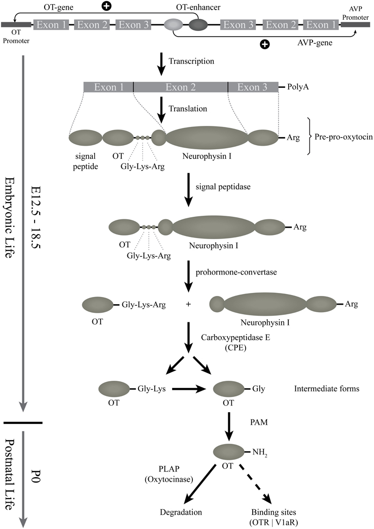 From Frontiers in Neuroanatomy, an open-source journal.